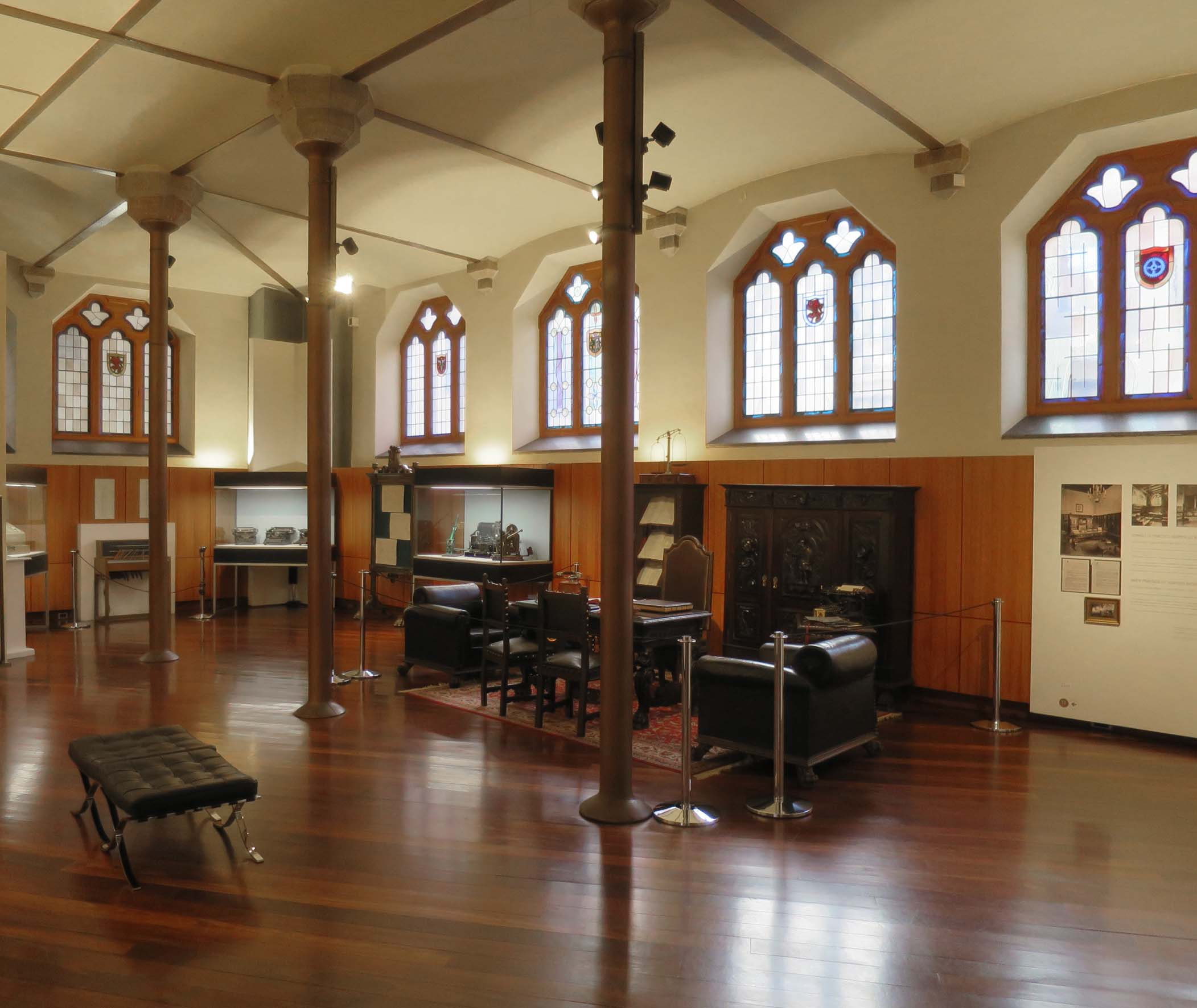 Casa Botines, ground floor, hall: Exhibition regarding the use of the building by a savings bank